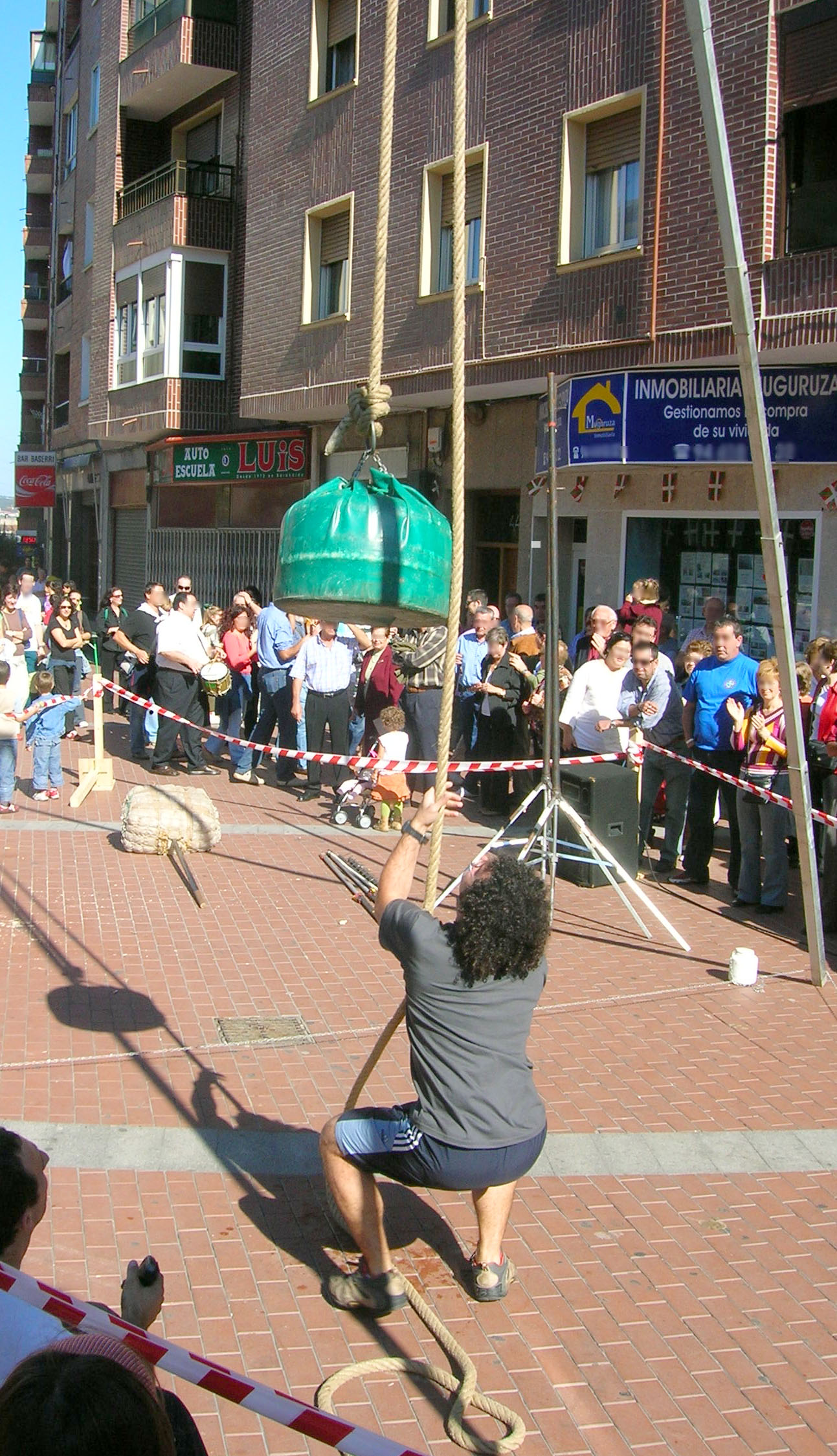 Levantamiento de fardo con polea. Fiestas de Santa Teresa, Barakaldo.